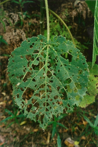 Dendrocnide excelsa at Gumbaynggir_National_Park, west of Nambucca Heads